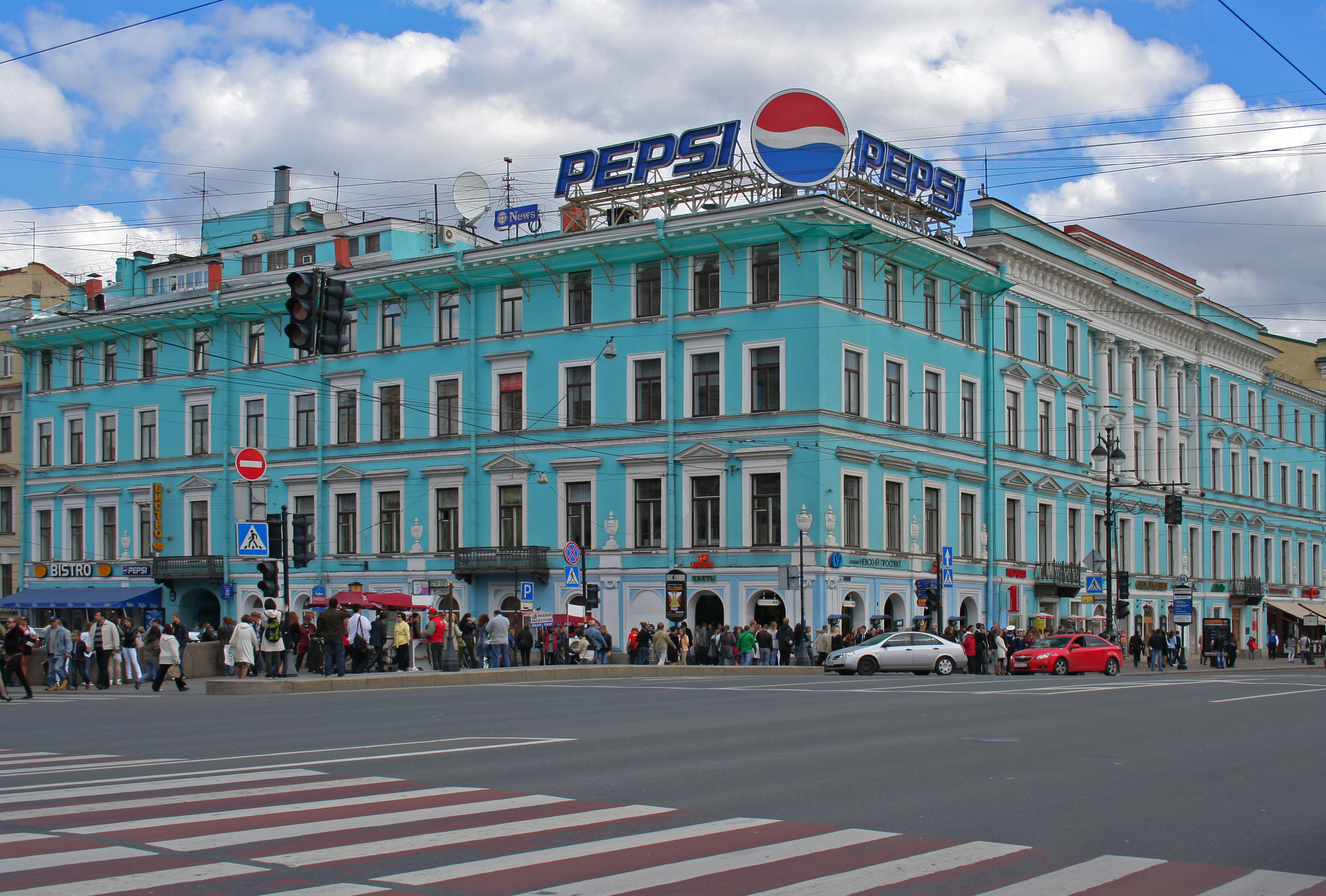 The Nevsky Prospekt in Saint Petersburg. House number 30.